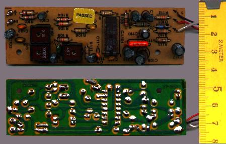 Single sided printed circuit board (PCB), showing component side (top) and solder side (below)